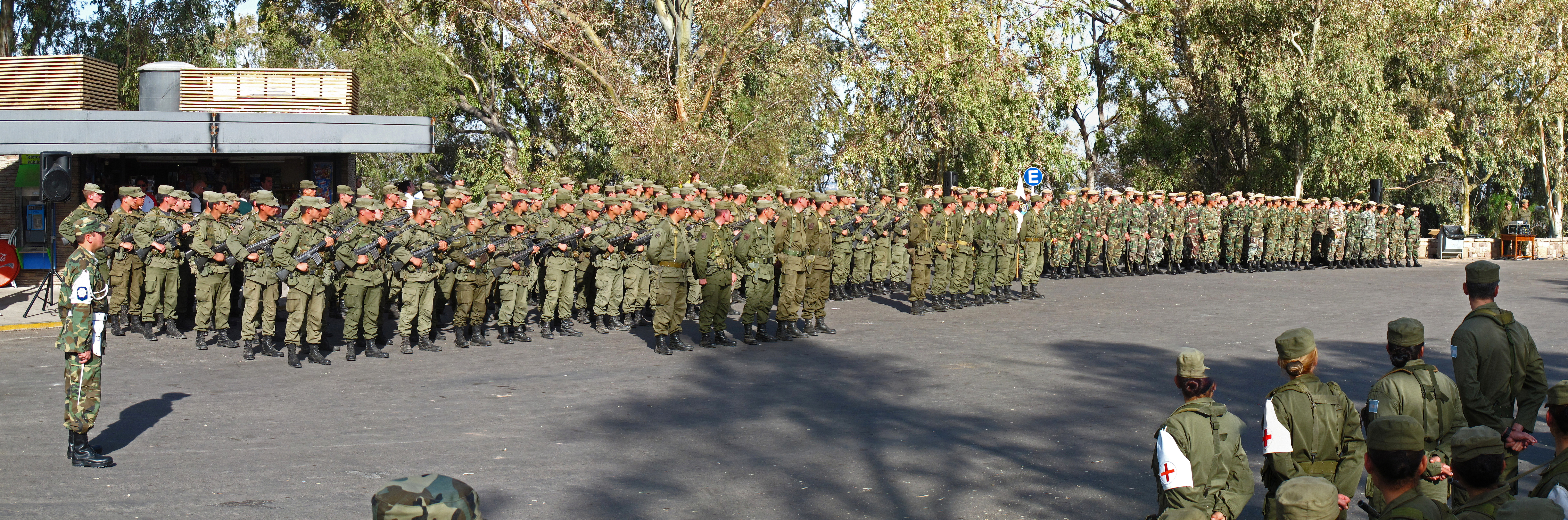 Argentinian cadets just before to start to sign the national anthem in Cerro de la Gloria (Mendoza)